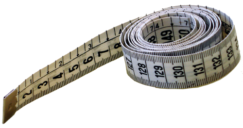 metric measuring tape Photographer Isabelle Grosjean ZA Date 2001-10-18 License GFDL-self Camera Sony PSC-P92